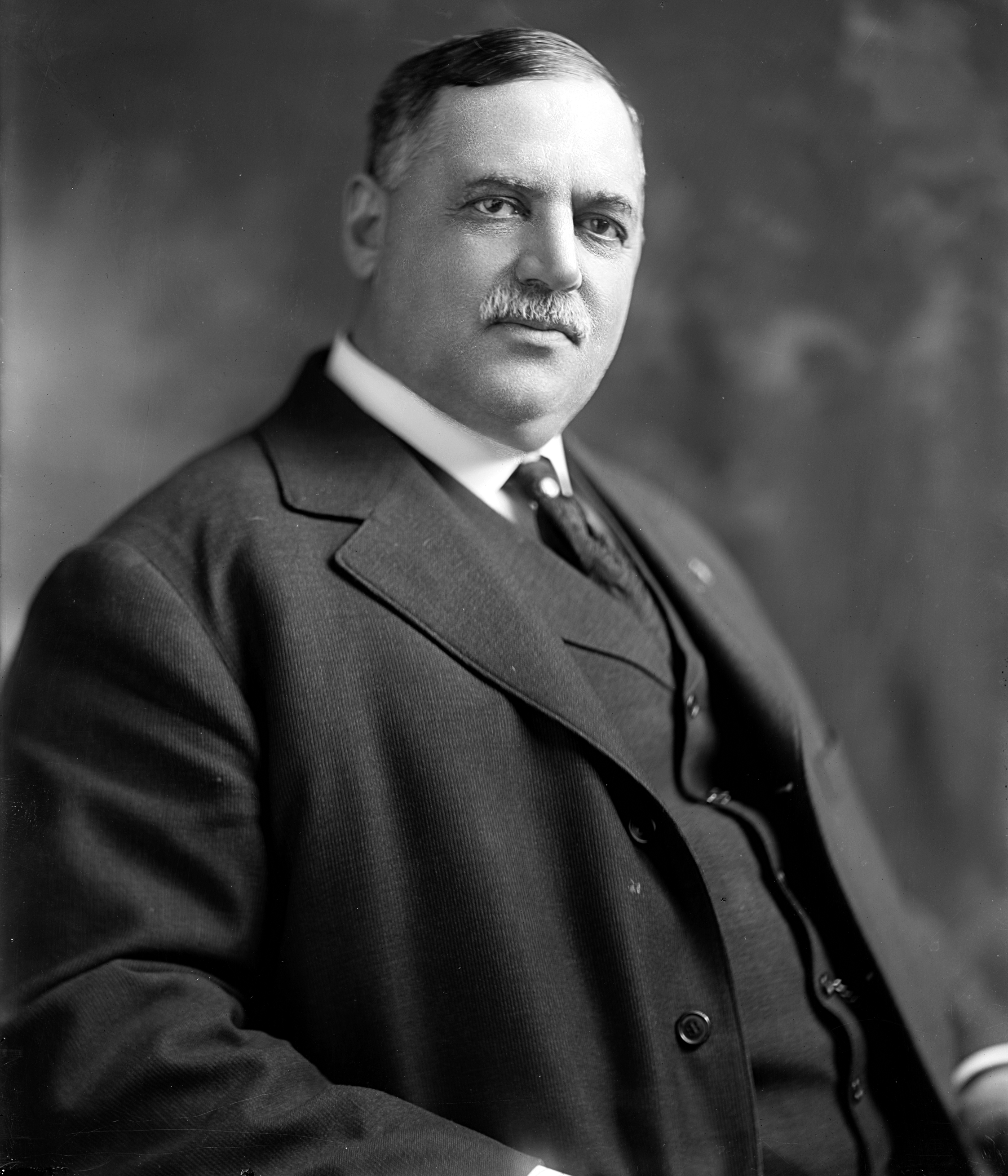 Charles Hedding Rowland, US Representative from Pennsylvania